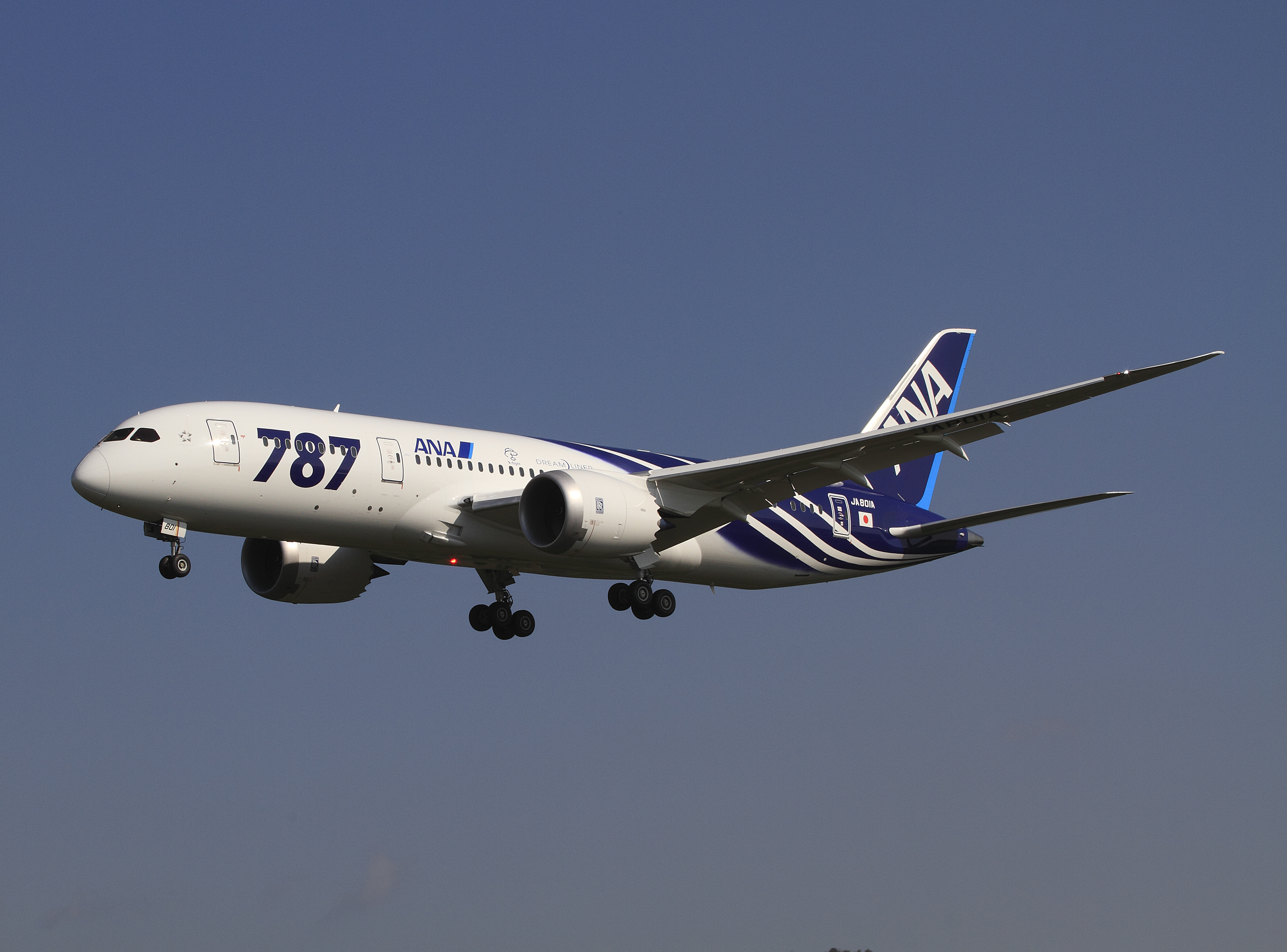 All Nippon Airways Boeing787-8(JA801A) land at Okayama Airport